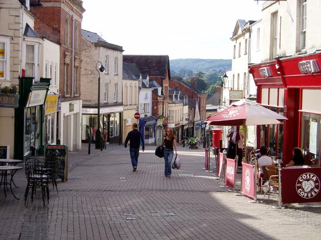 Looking down the High Street in Stroud, Gloucestershire.